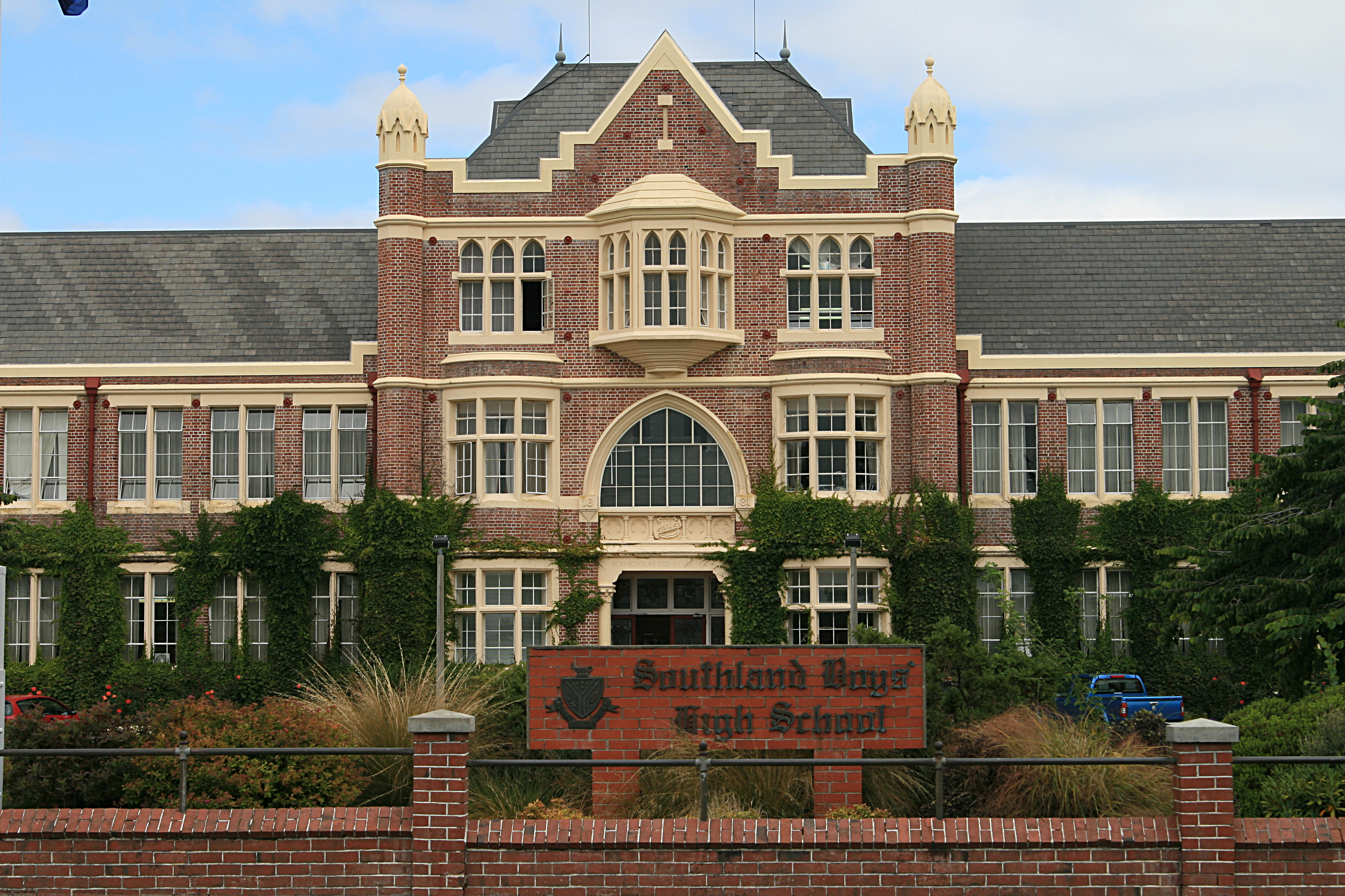 Southland Boys High School. New Zealand Historic Places Trust Category II; register number 2512.